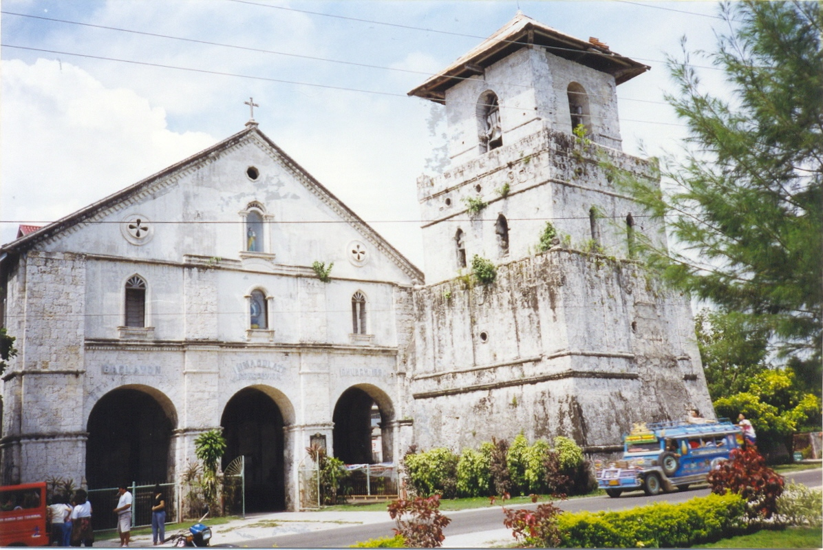 The Church of Baclayon in Bohol. The church was established by the Jesuits in 1596. The picture was taken in 1997 by Magalhães